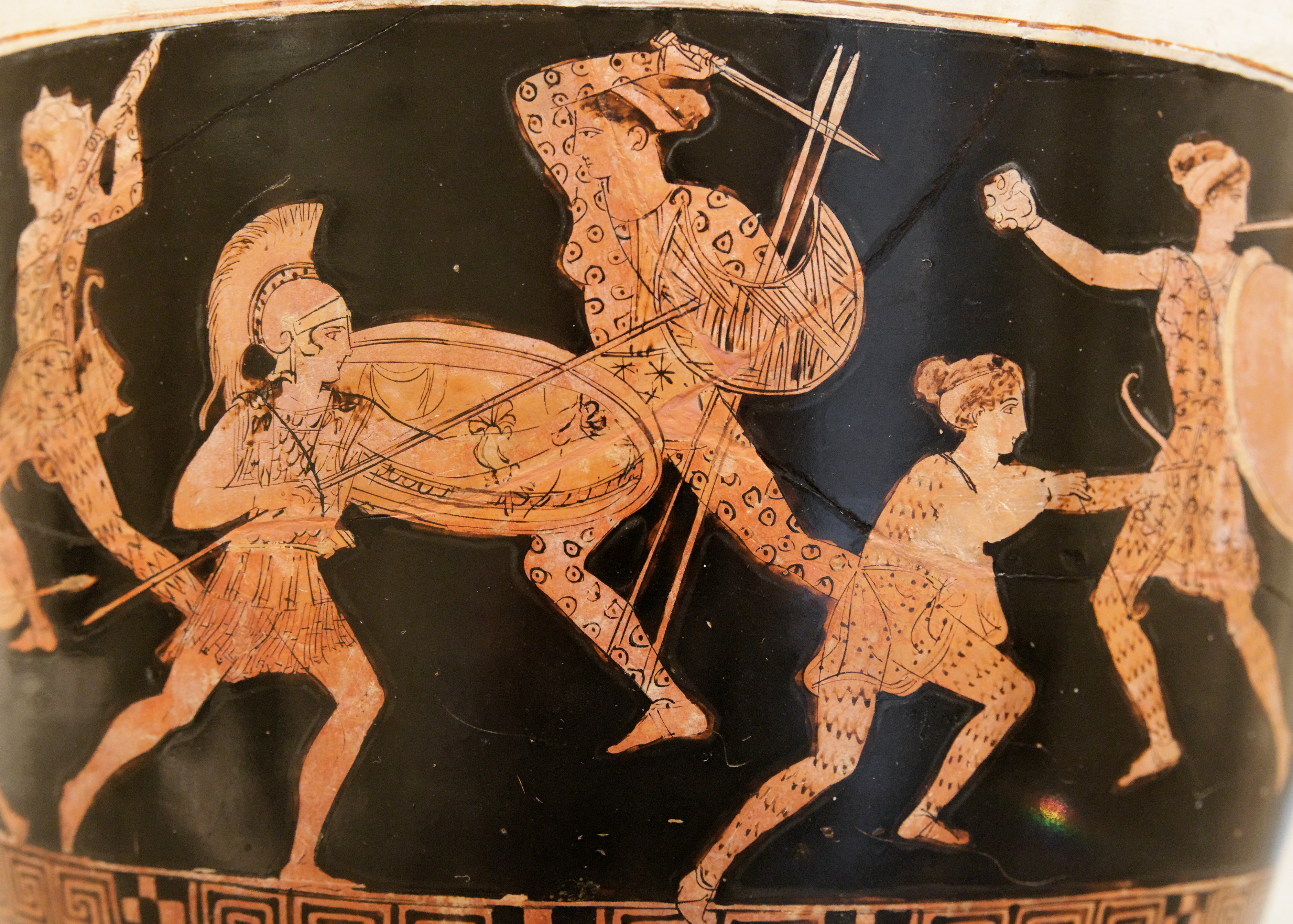 Amazonomachy. Lower tier of an Attic red-figure lekythos.